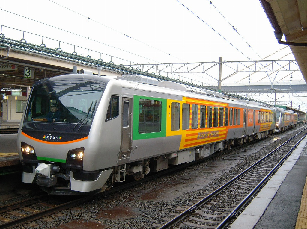 JR East HB-E300 series "Resort Asunaro" hybrid diesel unit at Aomori Station